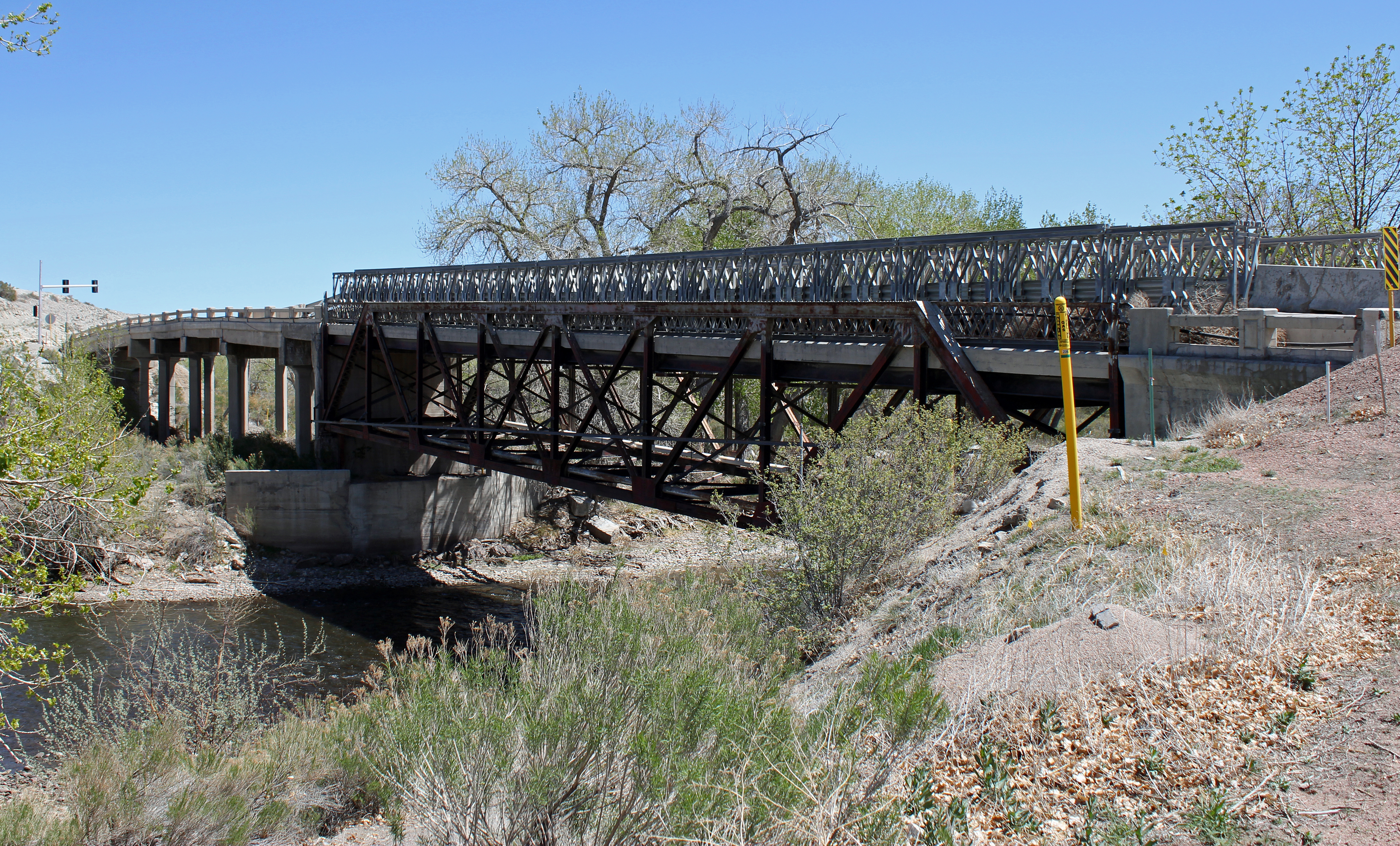 The Portland Bridge, located in Portland (Fremont County) Colorado. The bridge is listed on the National Register of Historic Places. The one-lane bridge was built in 1907 and goes over the Arkansas River and is part of Colorado State Highway 120.